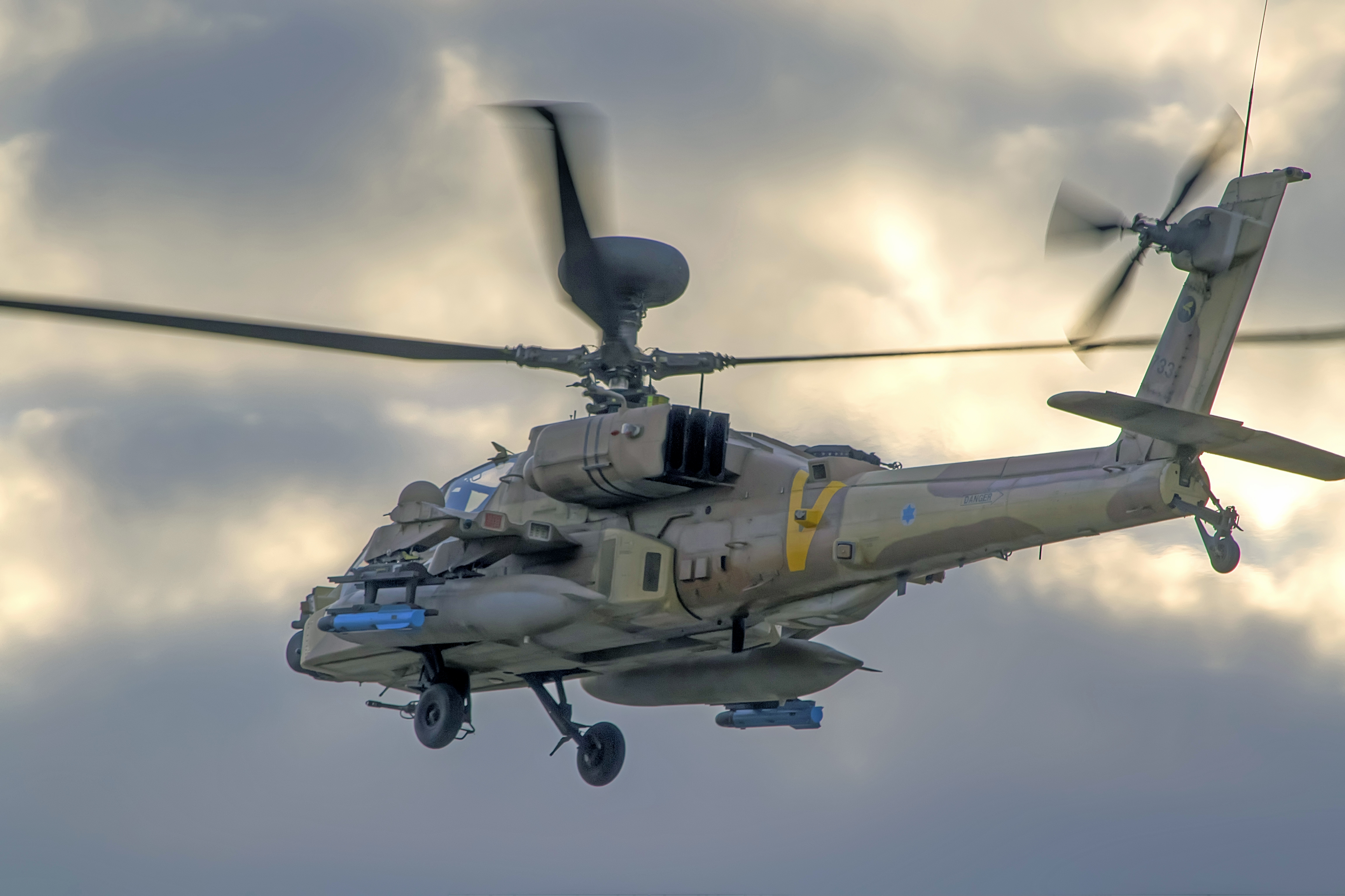 AH-64D "Saraf" on Graduates of Aviation Course 165 of IAF